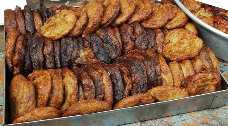 This media file is uploaded with Odia loves Wikipedia